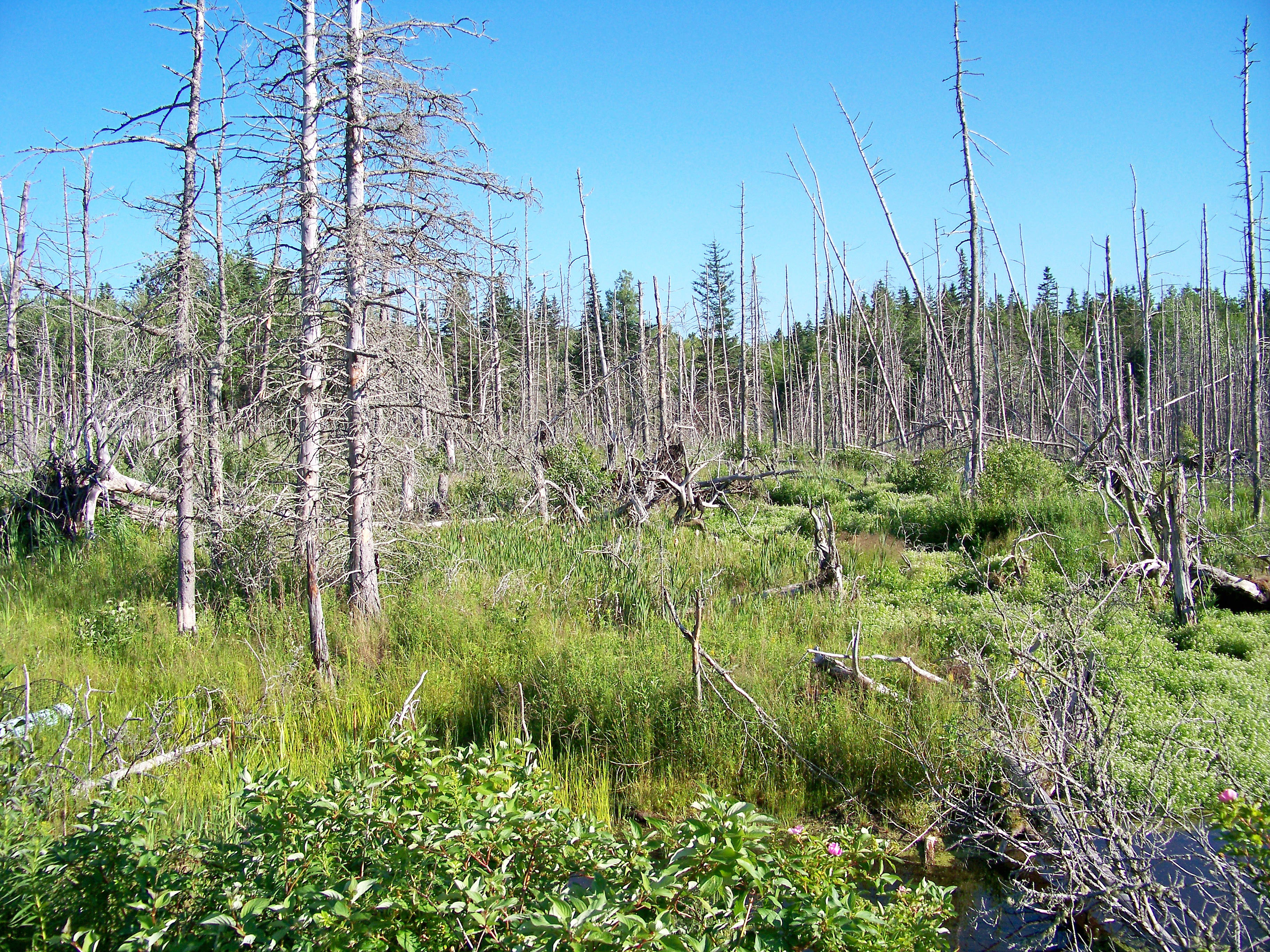 July 10, 2012